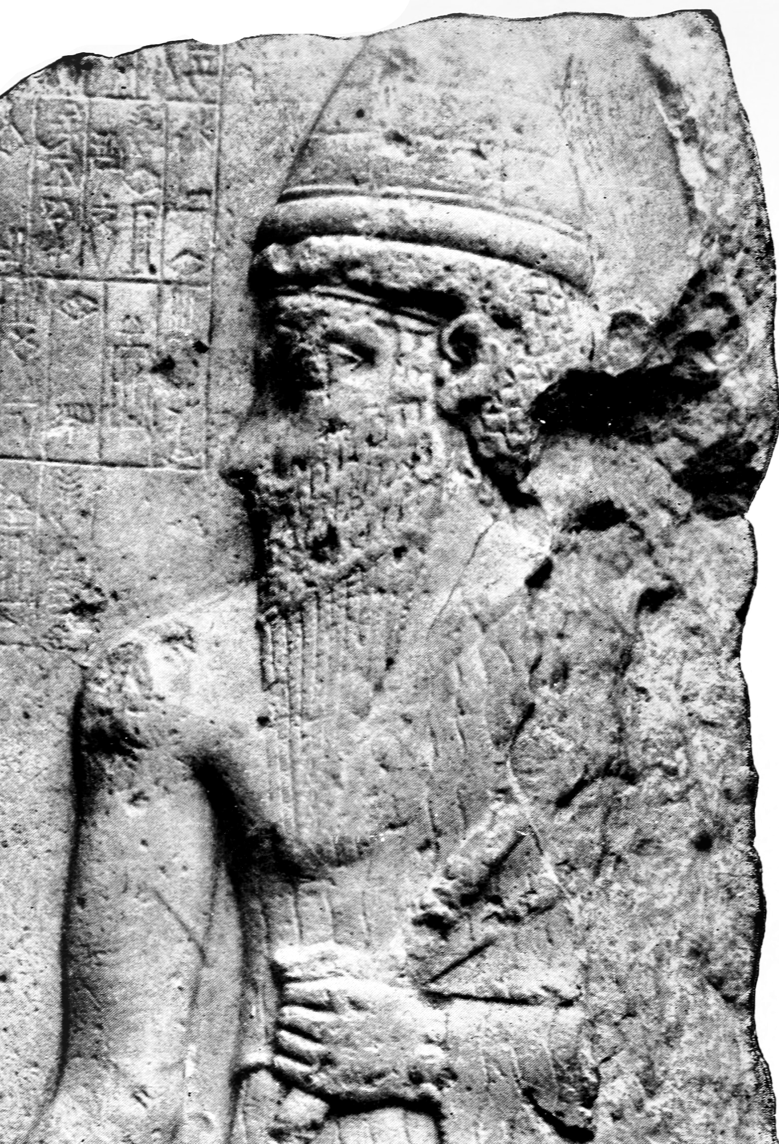 Relief of Naram-Sin (portrait)